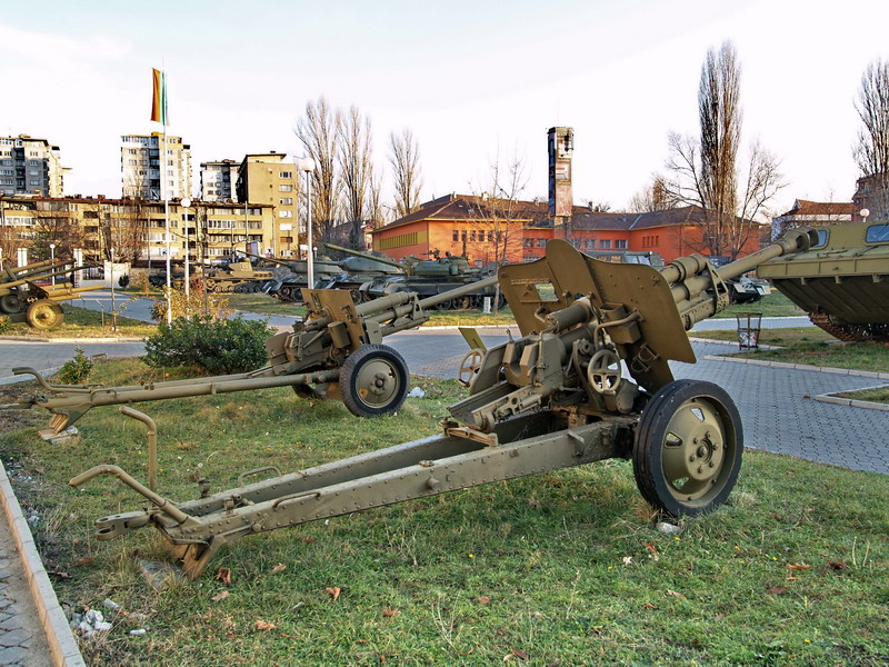 The National Museum of Military History, Sofia, Bulgaria - Part of the exposition under an open sky